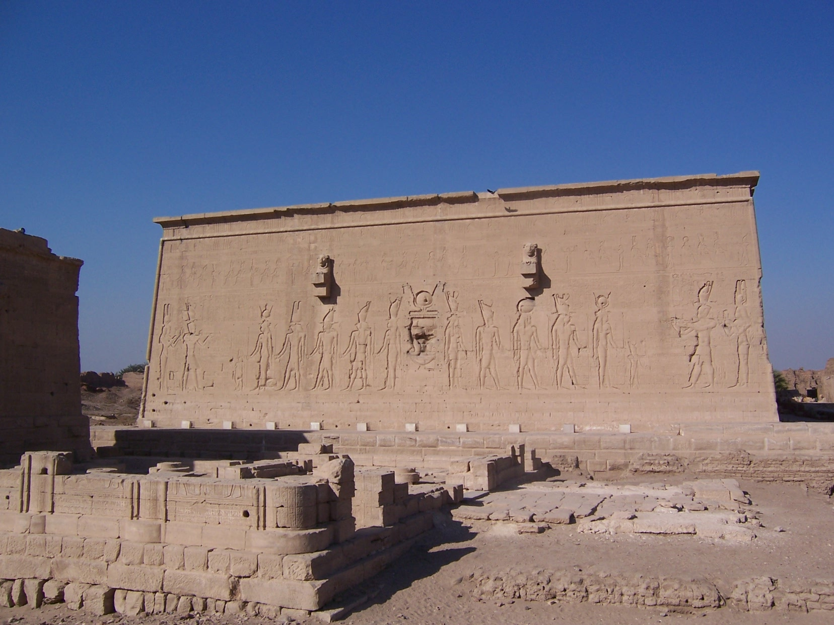 Dendera Hathor Temple Complex location: near Qina, Egypt